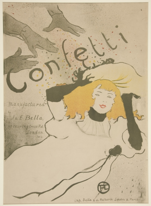 "Confetti," poster lithograph in color printed by Bells and de Malherbe, London & Paris, by the French artist Henri de Toulouse-Lautrec. Yale University Art Gallery, gift of Carter H. Harrison, LL.B. 1883 for the Emerson Tuttle Memorial Collection. Courtesy of Yale University, New Haven, Conn.